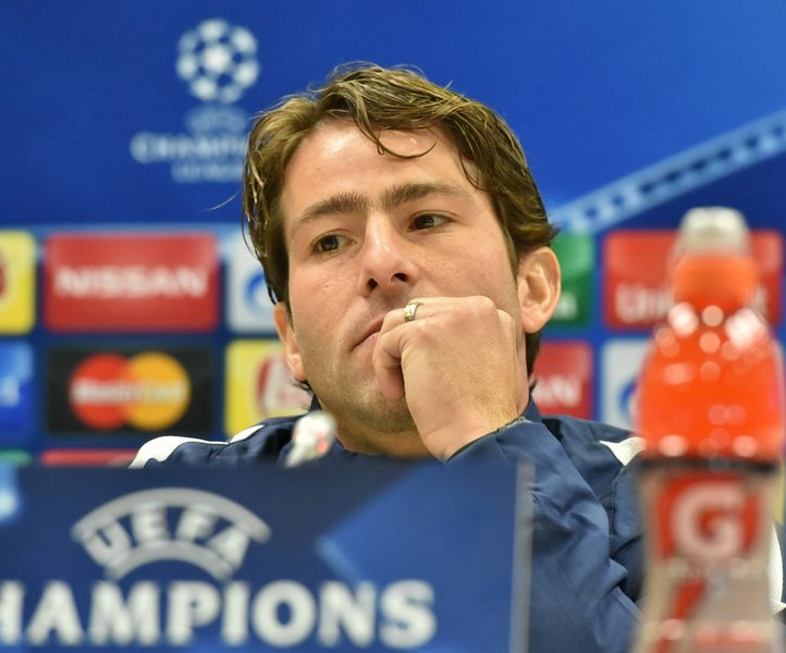 Maxwell at a press conference before Champions League match against Shakhtar Donetsk on 29 September 2015